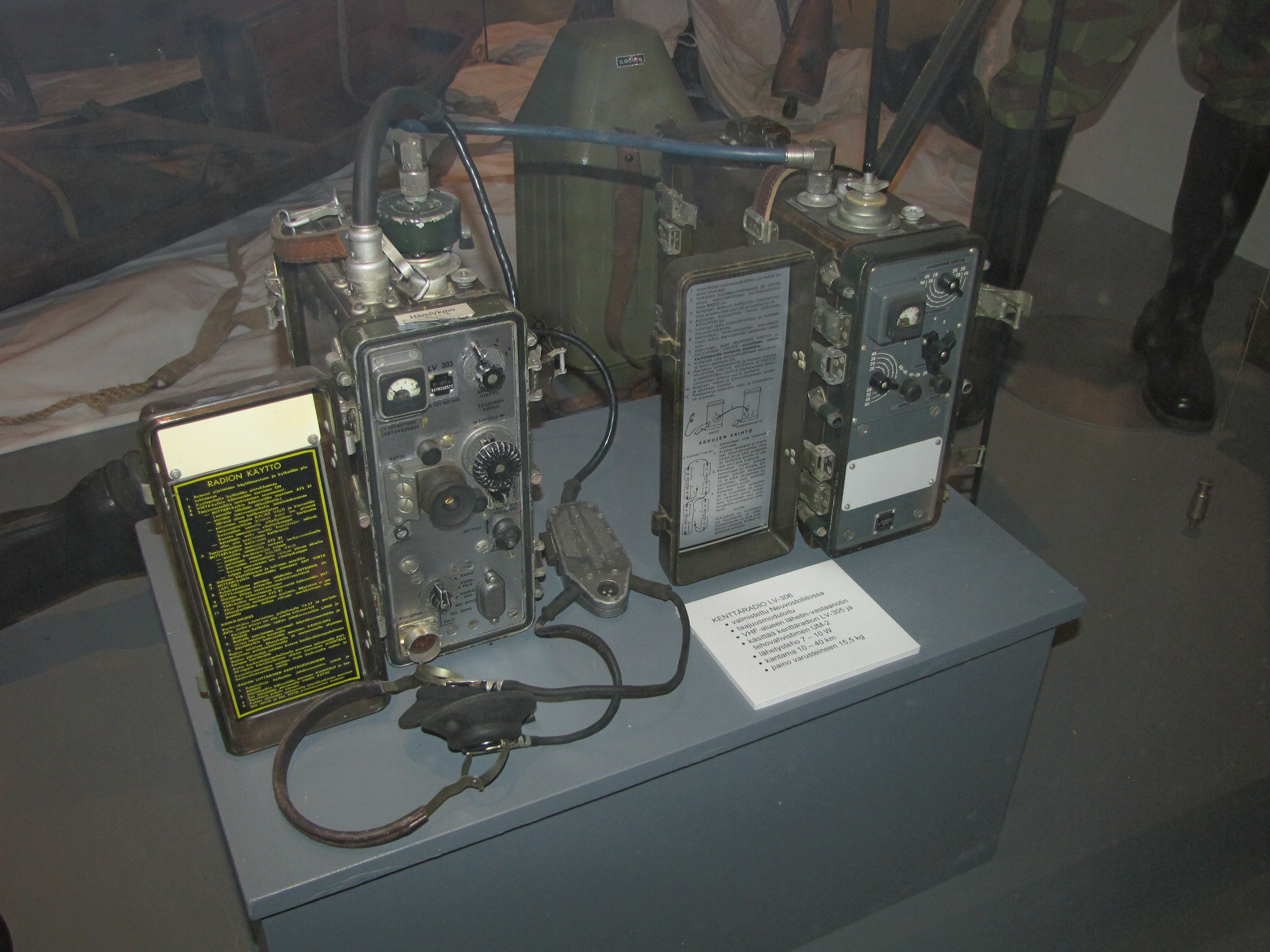 Military radio used in Finland. Finnish designation LV-306 (transmitter receiver 306), originally from Soviet Union. Used at brigade level. FM VHF radio, includes LV-305 radio (left) and UM-2 amplifier. Transmission power 7-10 W, range 10-40 km, total weight 15.5 kg. Photographed in Hämeenlinna artillery museum.